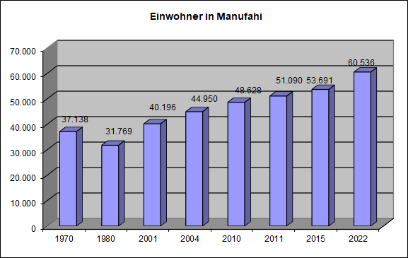 Population in Manufahi/East Timor